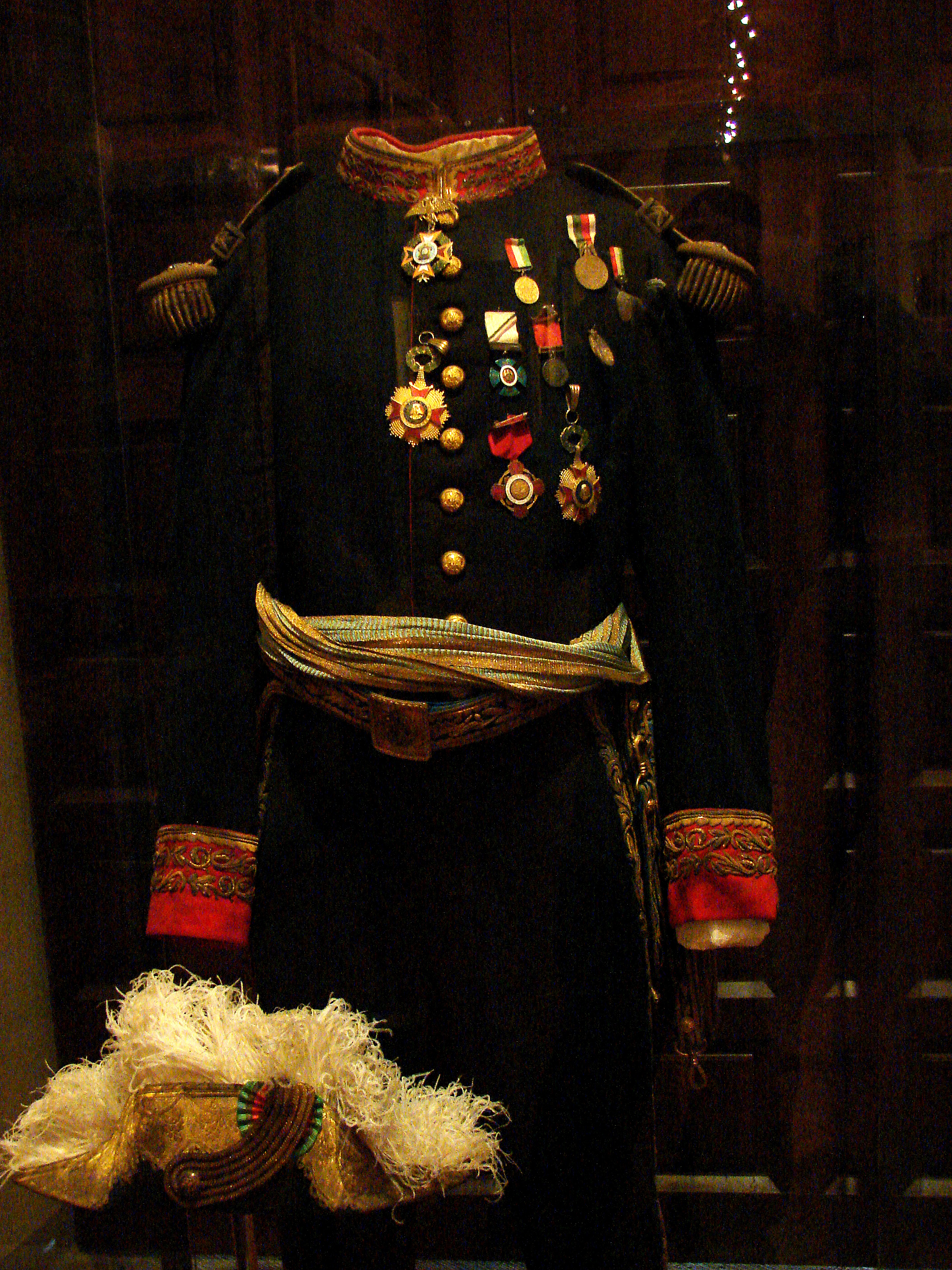 Uniform that belonged to general and Mexican President Porfirio Díaz, piece that is exhibited in the Museum of the Temple and EX-Convent of Santo Domingo in Oaxaca City, Mexico.